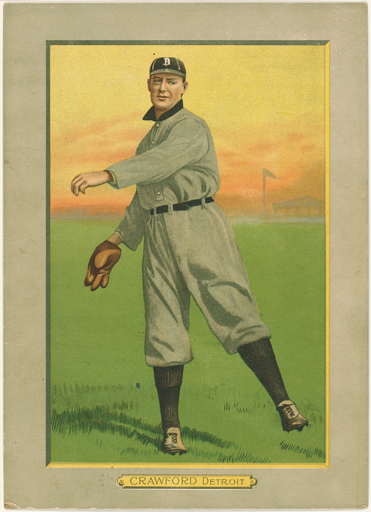 Title: Sam Crawford, Detroit Tigers, baseball card portrait Abstract/medium: 1 print : chromolithograph with hand-color.